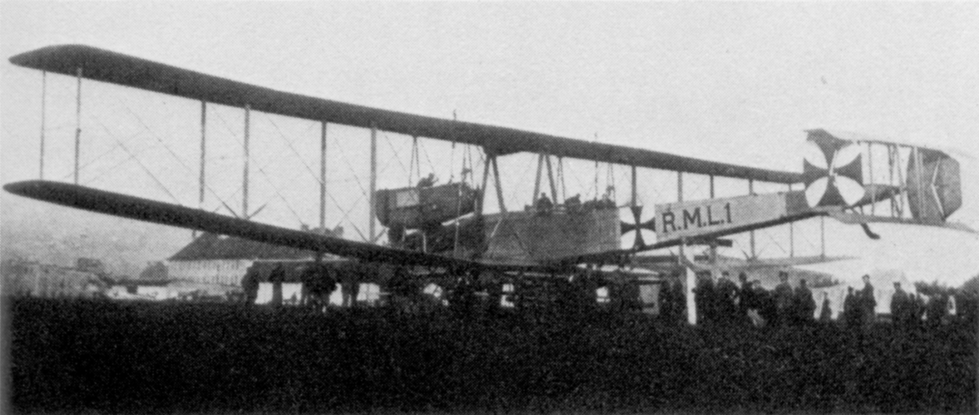 Photo of first Zeppelin-Staaken "giant" bomber, the VGO.I of 1915.